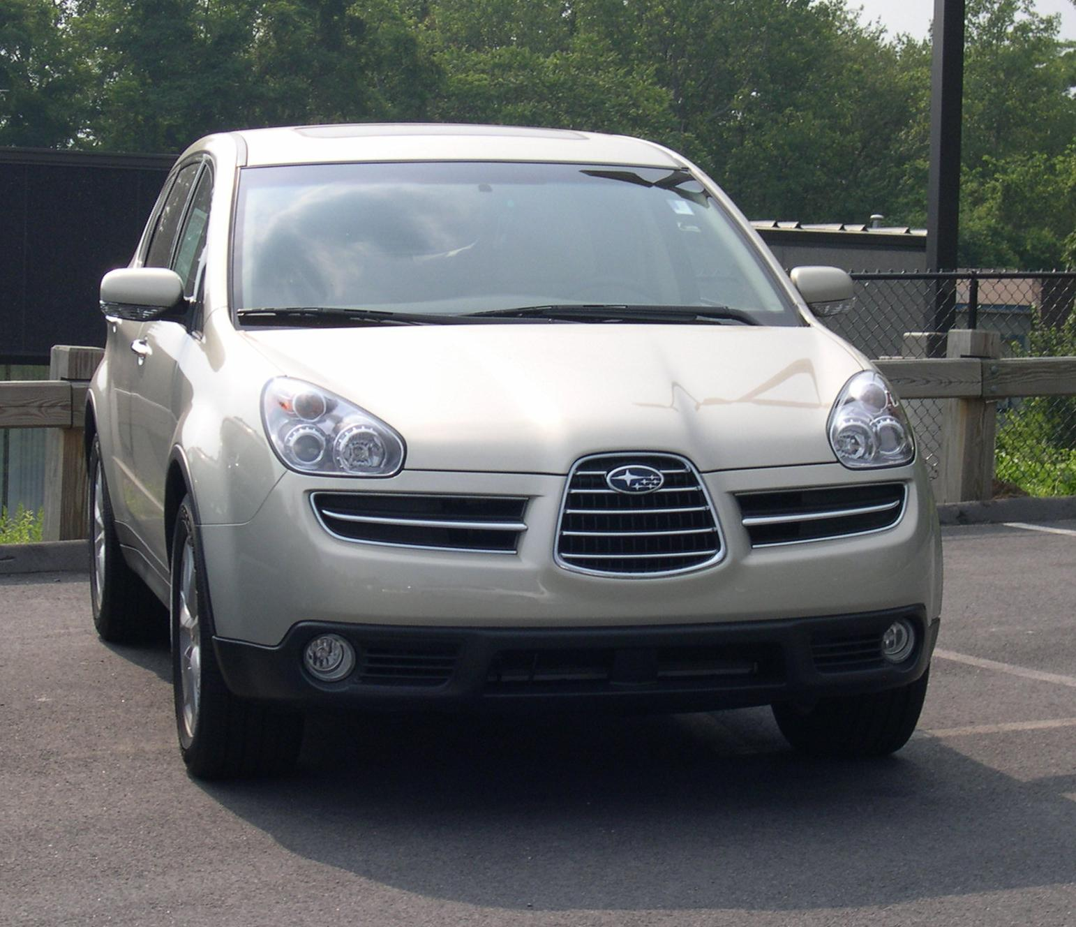 2006 Subaru B9 Tribeca Source: Photo by User:Sfoskett